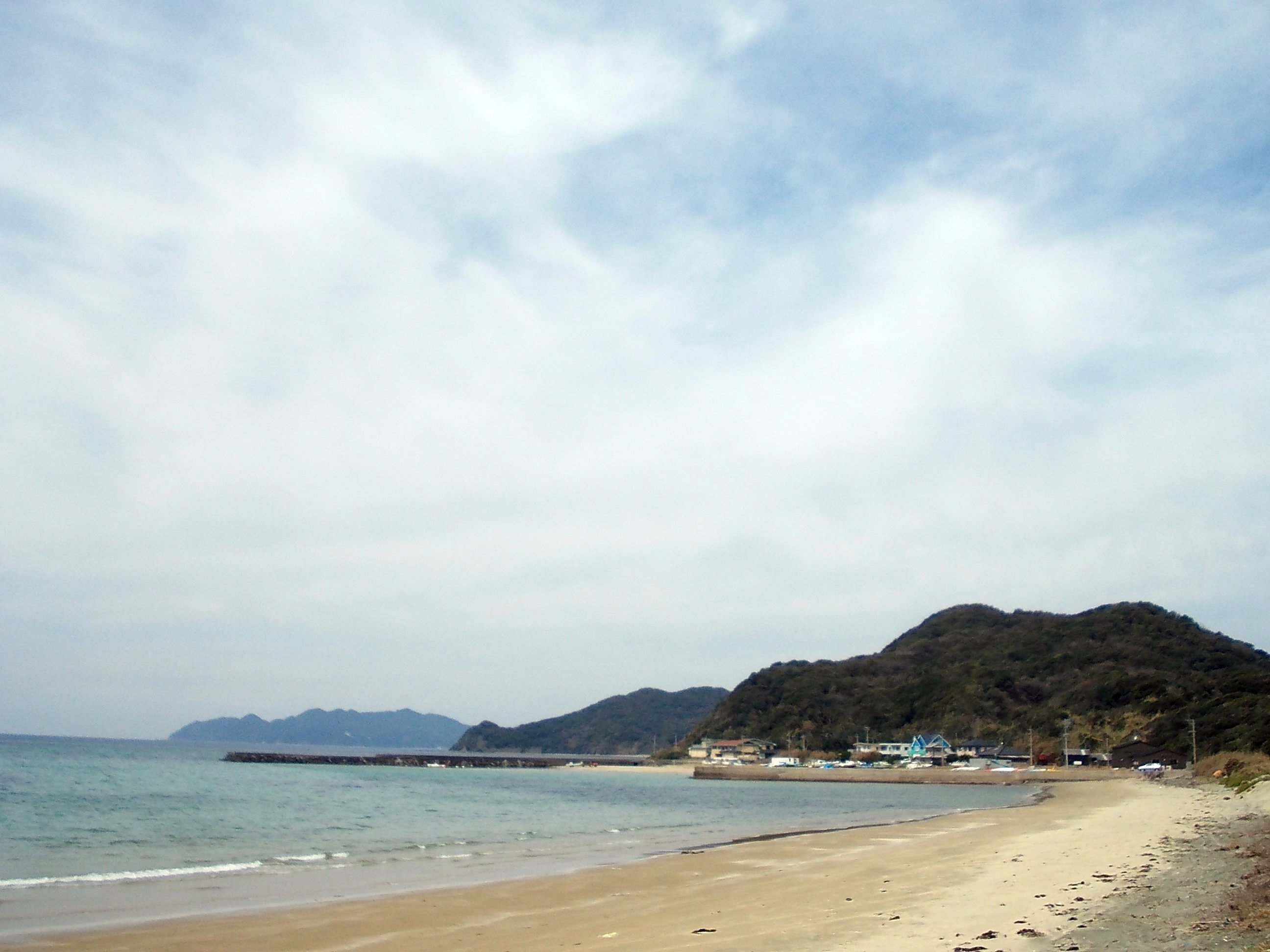 Katsuura Fishing Port, located on the border of Fukutsu and Munakata cities, Fukuoka, Japan